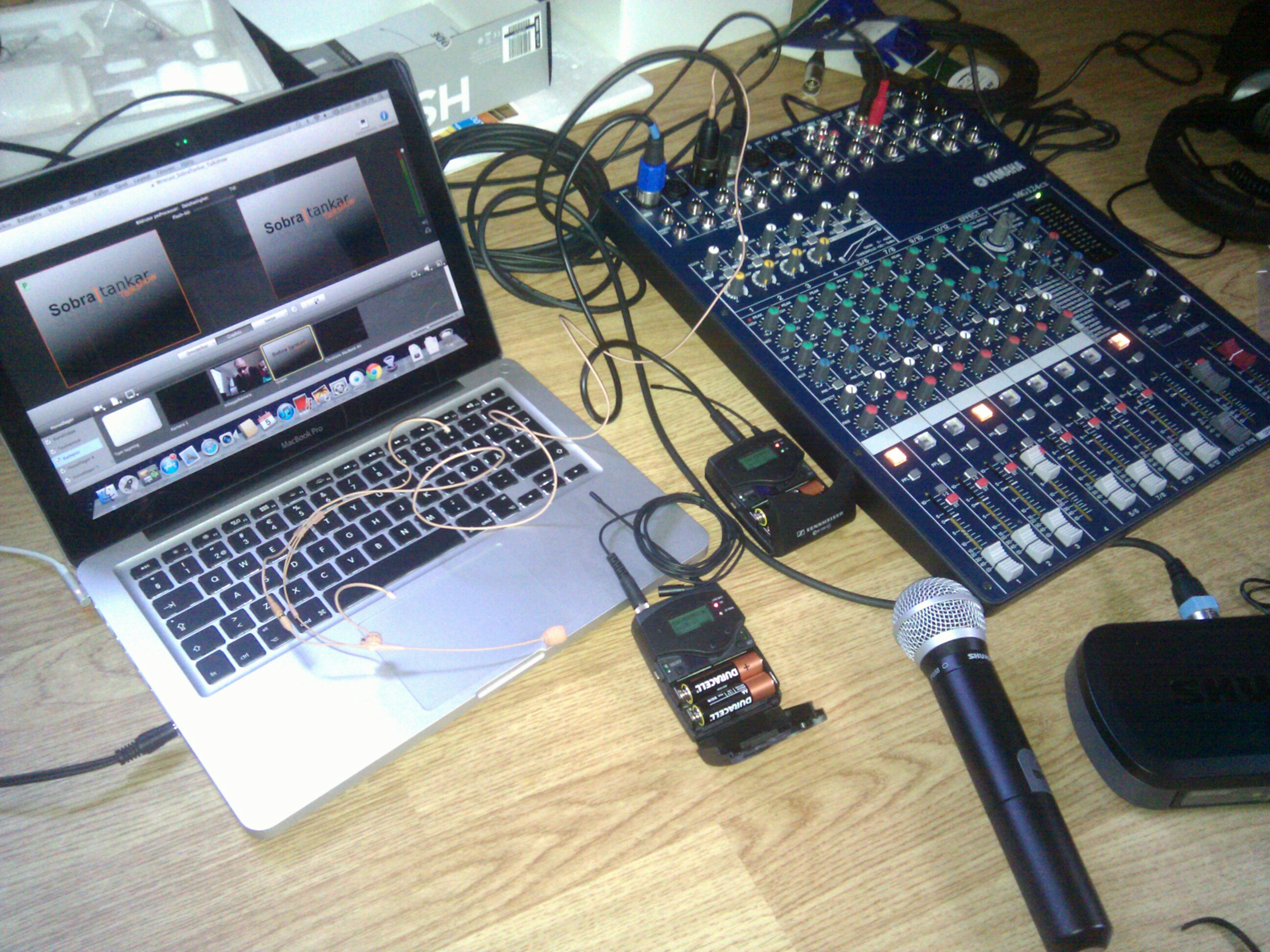 Live streaming audio setting for Sobra|tankar [wireless set 1] Sennheiser ew100G3 (SK100G3 bodypack transmitter + EK100G3 diversity receiver) [wireless set 2] Shure PGW24/PG58 (PG4 Receiver + PG2 Handheld Transmitter with PG58 Microphone) [audio mixer] Yamaha MG124cx Provar och trixar med ljudutrustningen till Sobra|tankar.